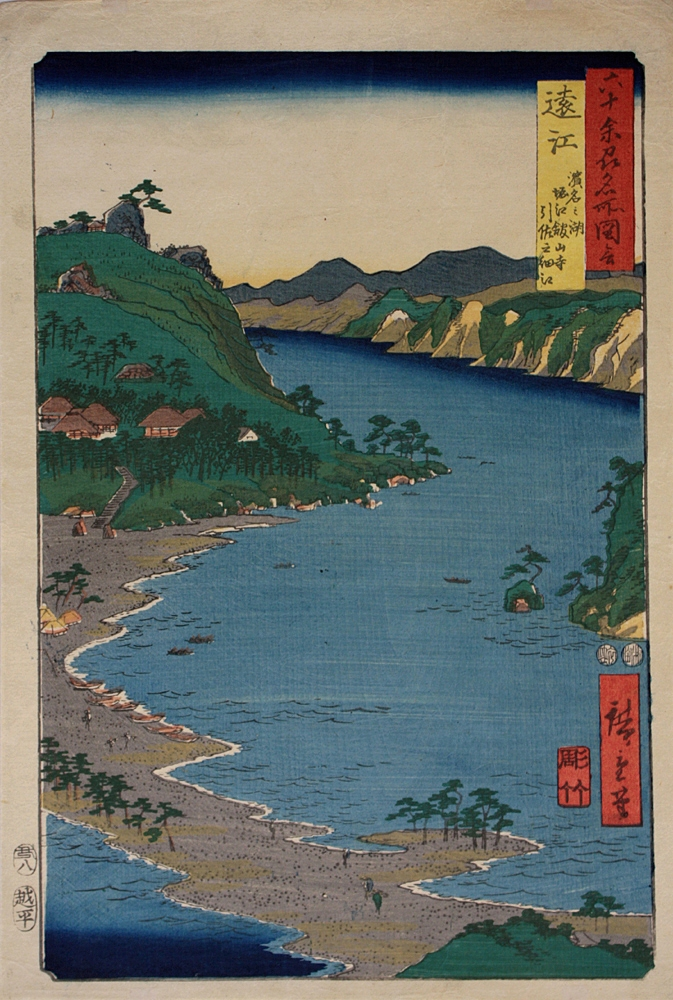 Tōtōmi Kanzanji of the Famous Scenes of the Sixty States.